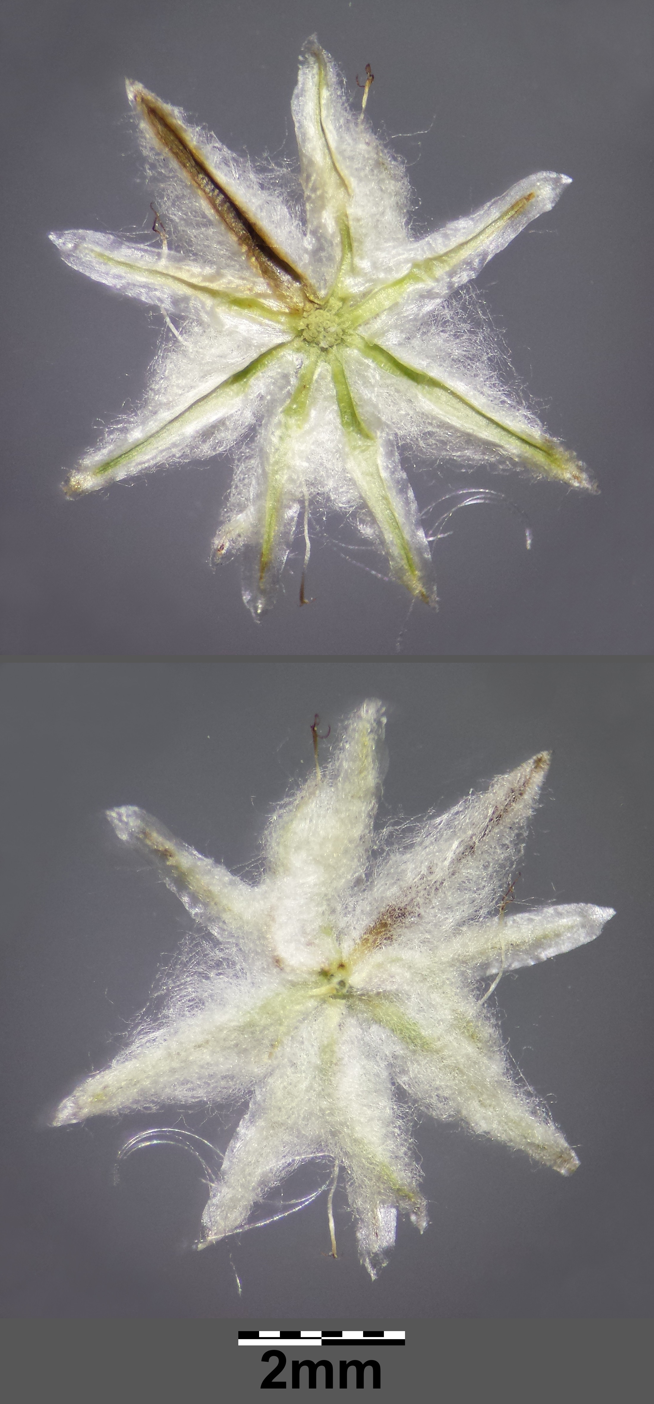 Involucre, above inside, below outside Taxonym: Filago arvensis ss Fischer et al. EfÖLS 2008 ISBN 978-3-85474-187-9 Location: near Heumühle next to Rappottenstein, district Zwettl, Lower Austria - ca. 700 m a.s.l. (leg.: 2014-08-16) Habitat: gritty place (crystalline rock)